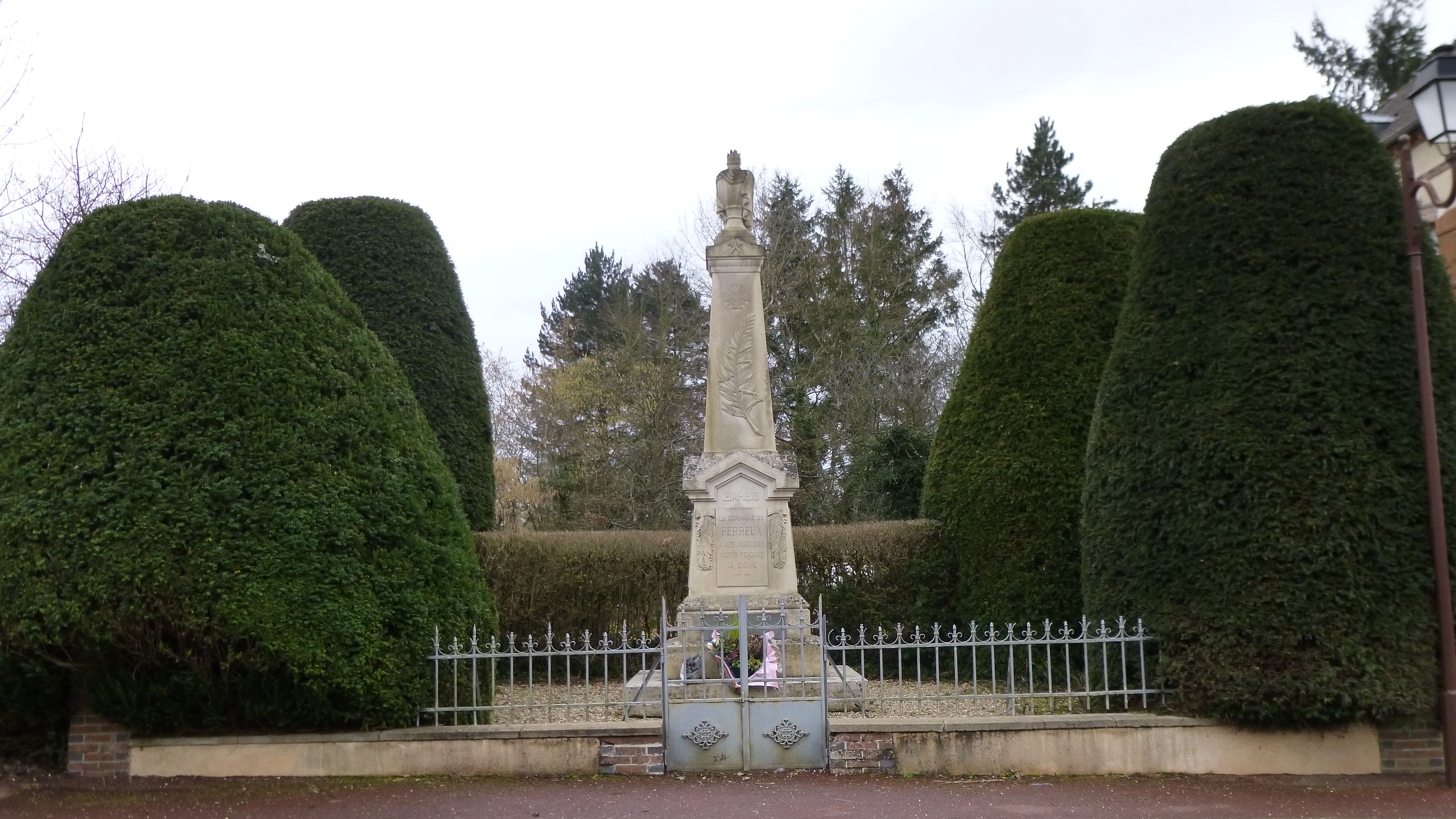 Perreux, Yonne, Burgundy, France. War monument, beside the town hall.